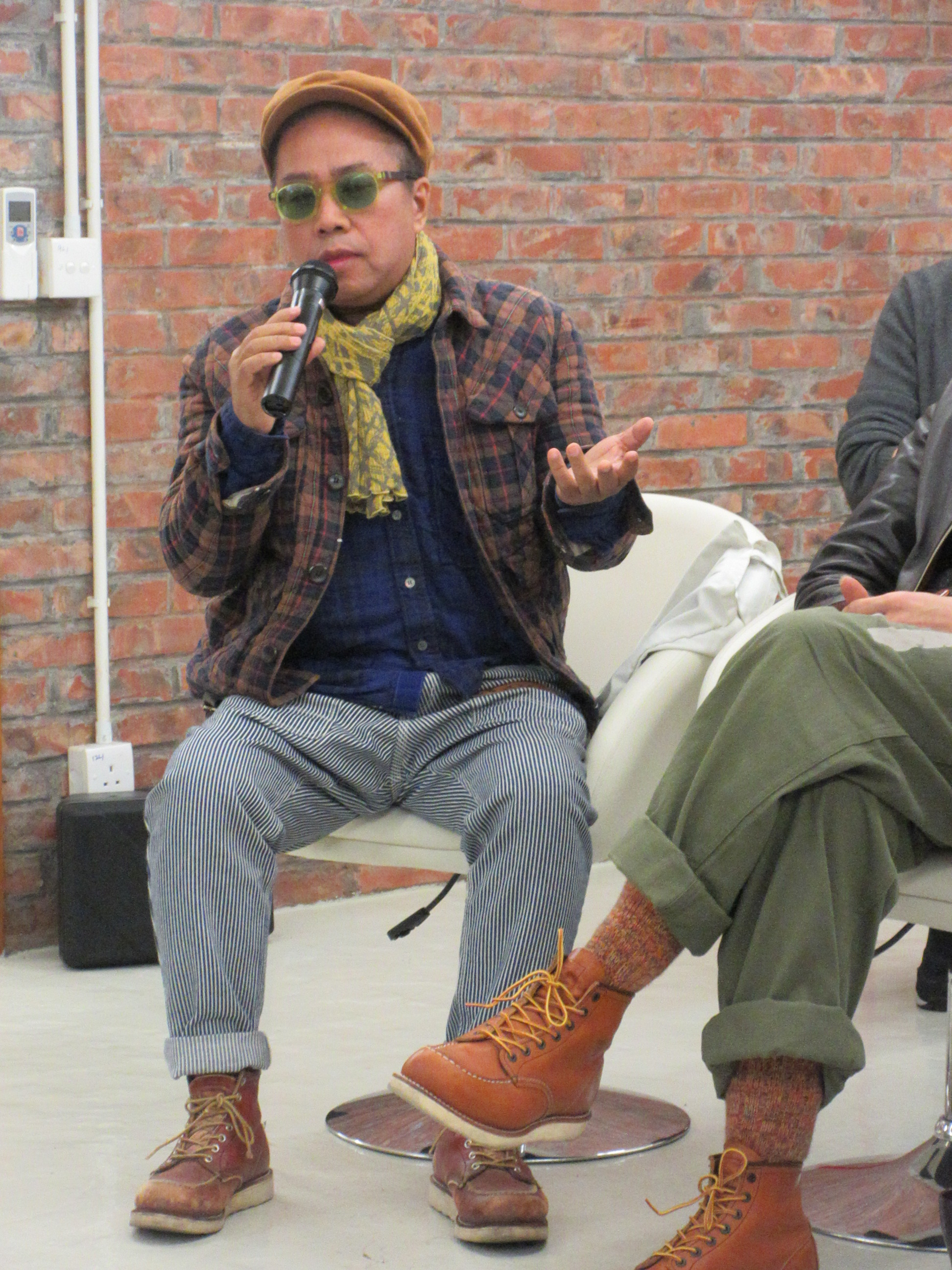 HK Kwun Tong 香港電影導演會 HKFDG movie directorship talk in December 2017